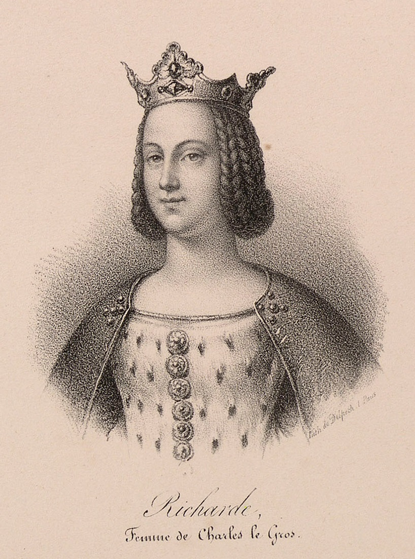 Richilde of Provence (c.845 – 910)